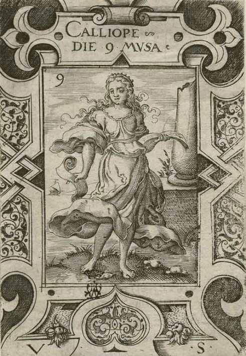 Muse Calliope from the illustrations to Ovid by Virgil Solis (1562).